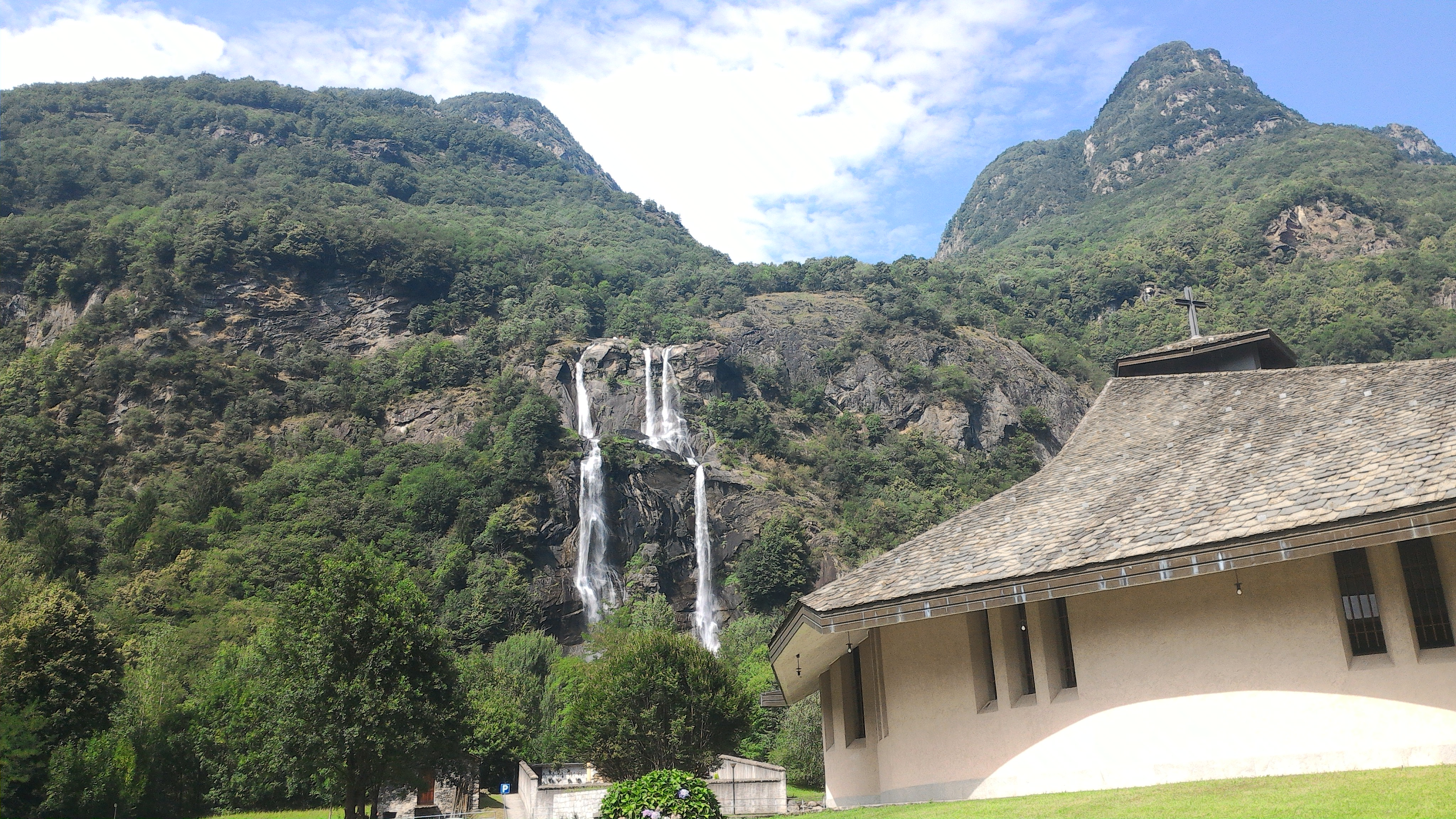 Waterfall which is apparently called Cascade Acquafraggia. From 2015-07. With surroundings, namely the mountains around and some cemetery.